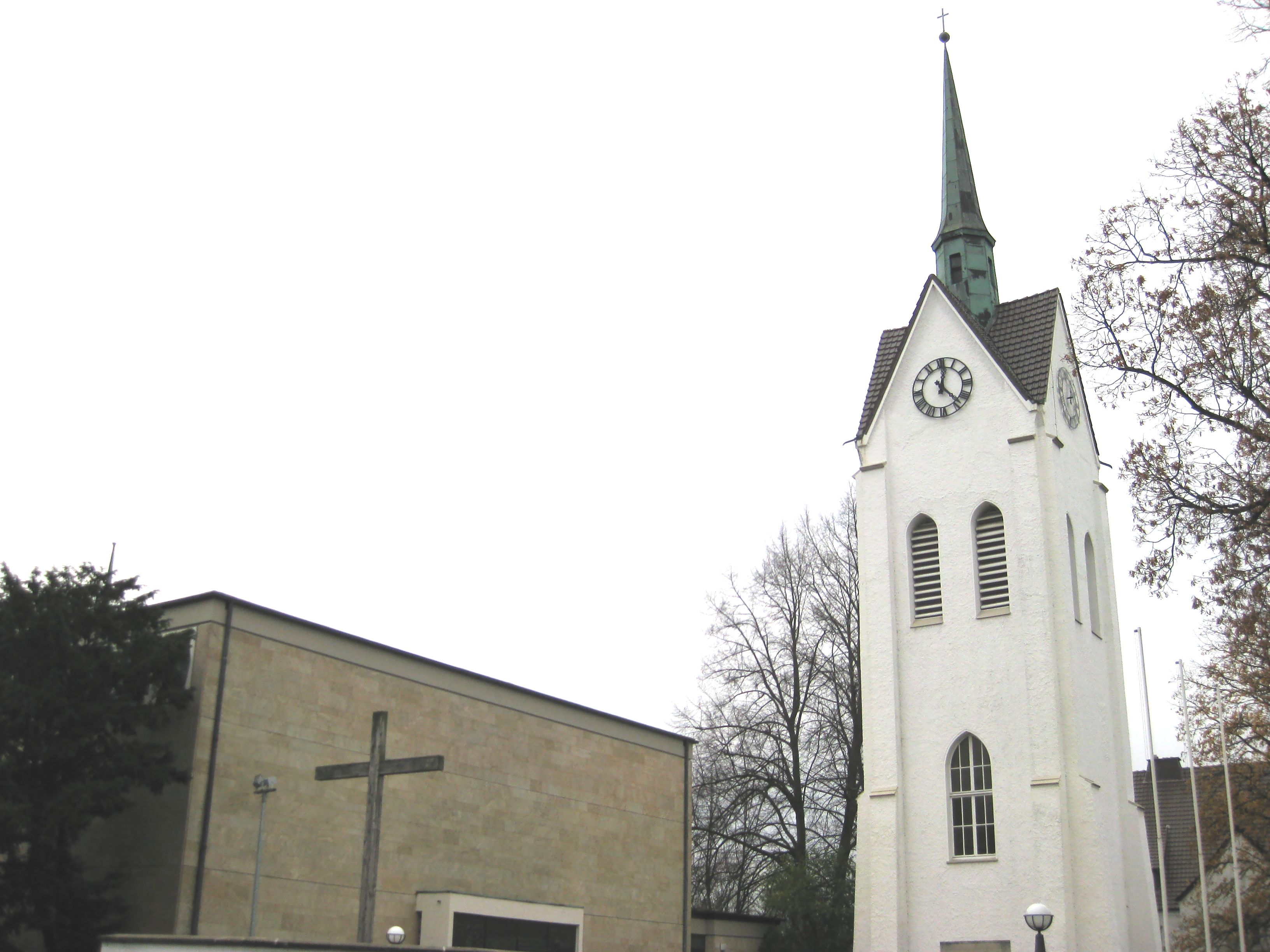 lutheran parish church Mahnen in Löhne